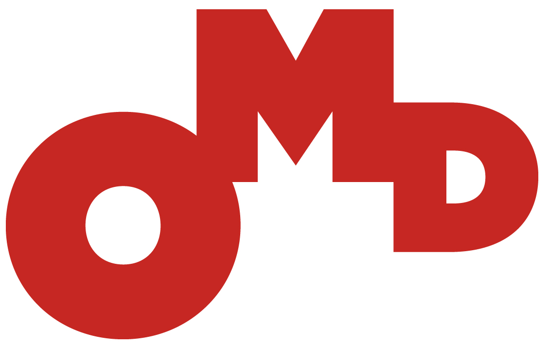 OMD Logo. See OMD (Agentur).